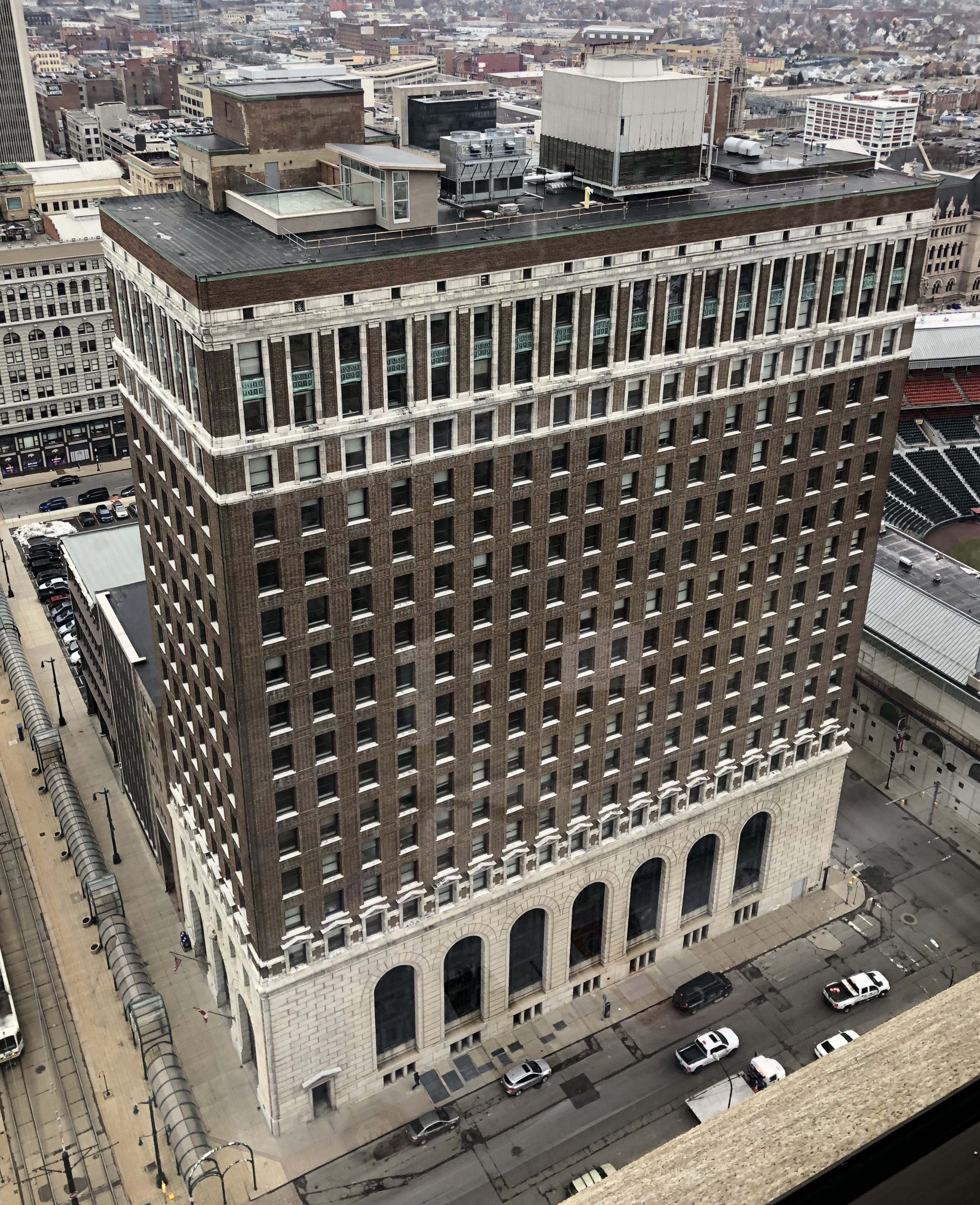 Photo of the Marin building